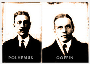 Passport photos, Lewis Augusut Coffin, Jr and Henry M Polhemus - 1920; en route to Le Havre, France